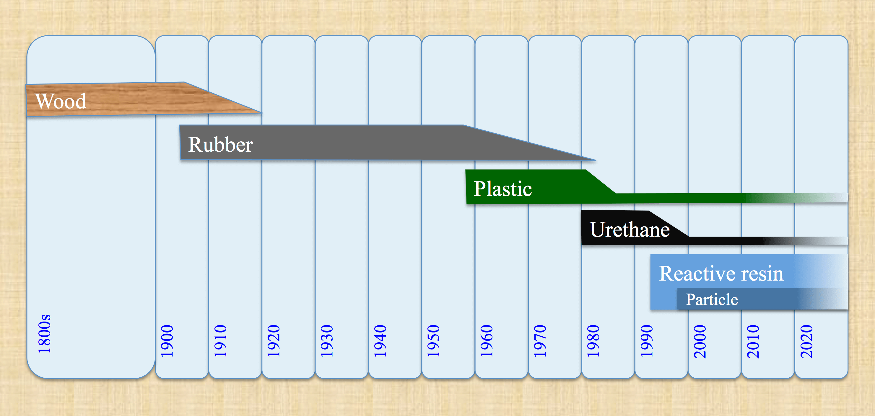 Rough timeline of bowling ball coverstocks. Information derived from sources: Carrubba, Rich. Bowling Ball Evolution. (Bowlversity educational section)' (June 2012). Archived from the original on September 17, 2018. Siefers, Nick. Understanding the relationship between core and cover stock. (Courtesy of USBC Equipment Specification and Certification)' (April 23, 2007). Archived from the original on September 20, 2018.